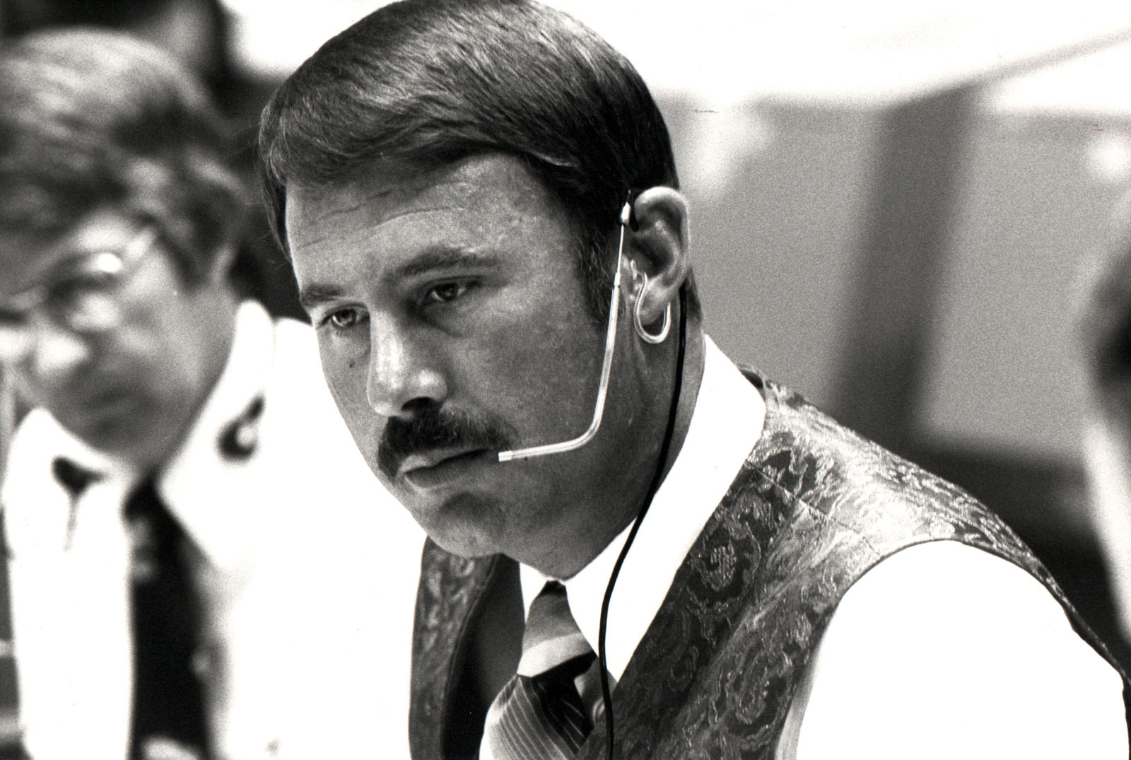 NASA Flight Director Donald R. Puddy monitors his console in Mission Control during the first free flight test of the Shuttle Enterprise in 1977. Puddy joined NASA in 1964 and went on to become the agency's 10th flight director. He had a 31 year career at NASA, and acted as a flight director during the Apollo program, Skylab, Apollo-Soyuz, and through space shuttle testing and STS-1. He died November 22, 2004, in Houston, Texas, at the age of 67.